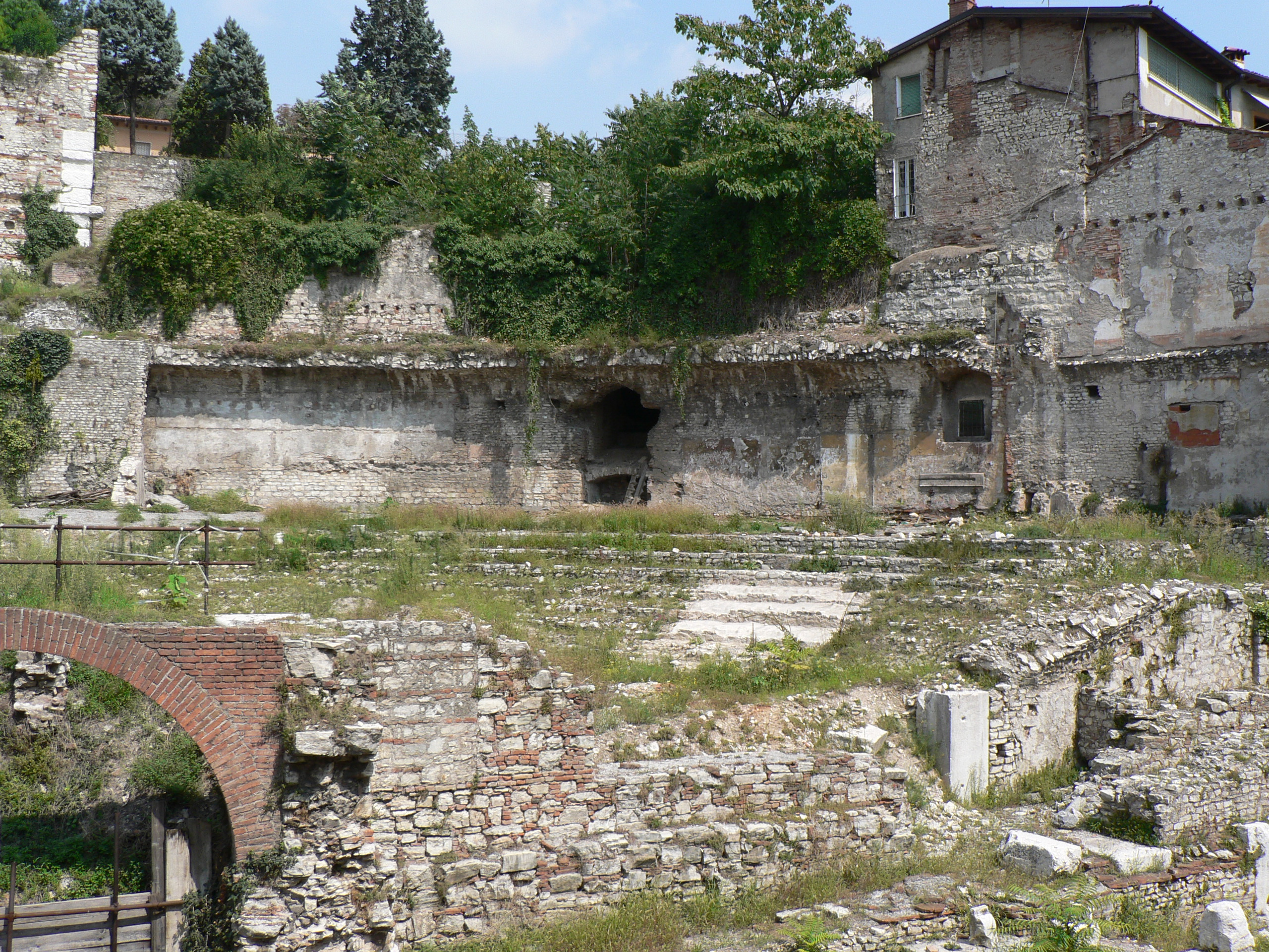 The ruins of the Ancient Roman theatre of Brescia